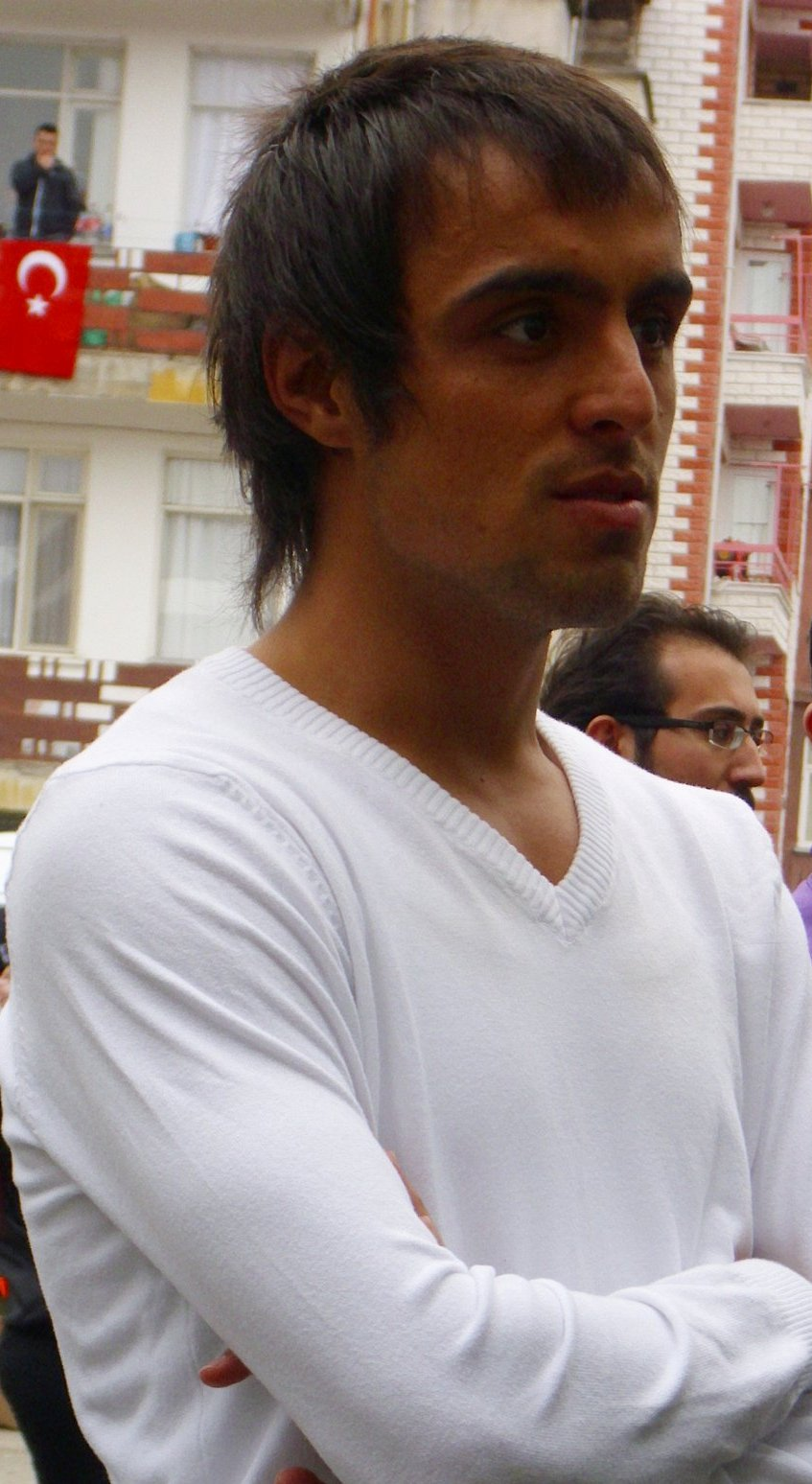 Ufuk Bayraktar in 2011.